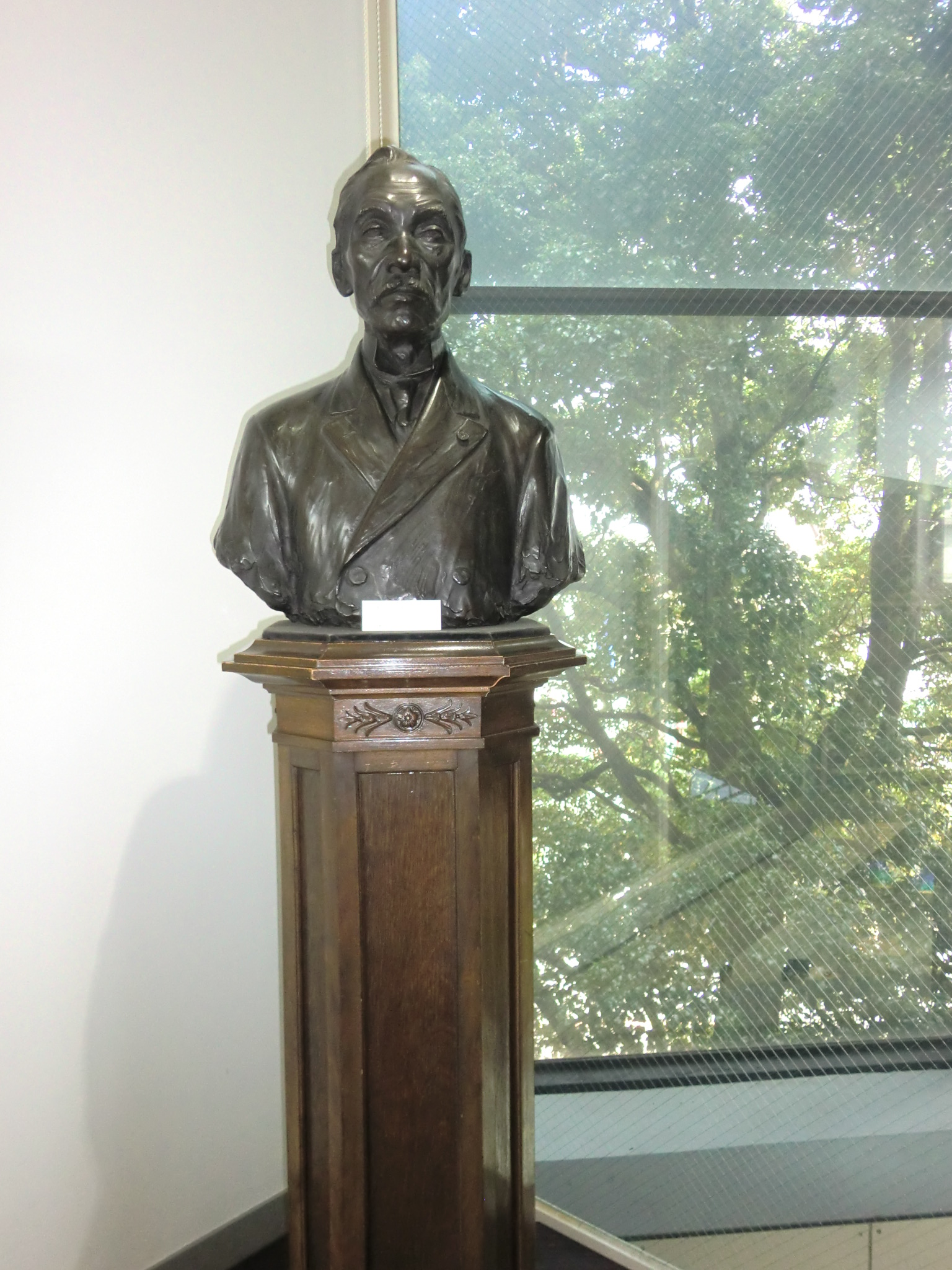 Bust of Tejima Seiichi.